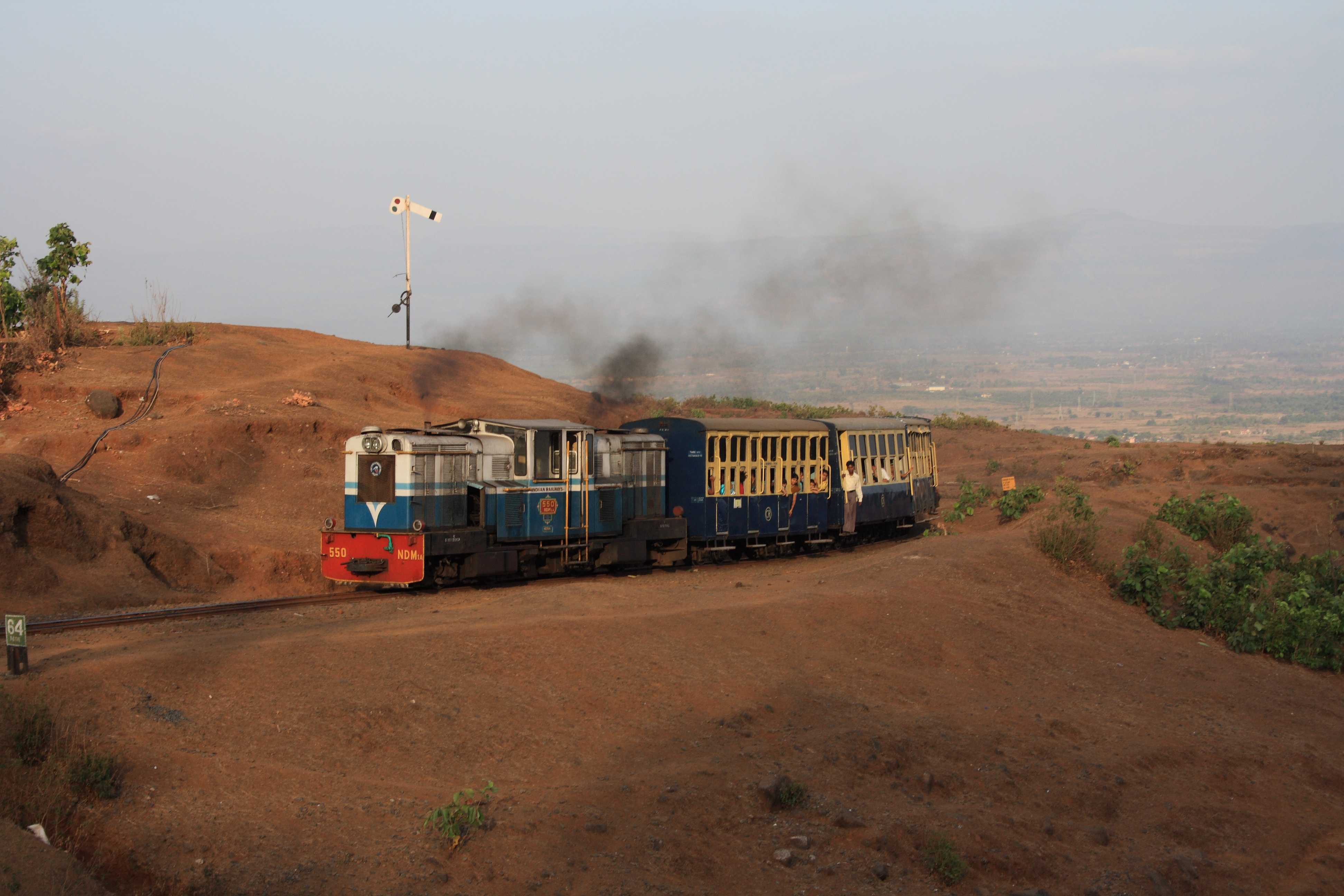 The train to Matheran shortly before arriving at Jumma Patti Station.